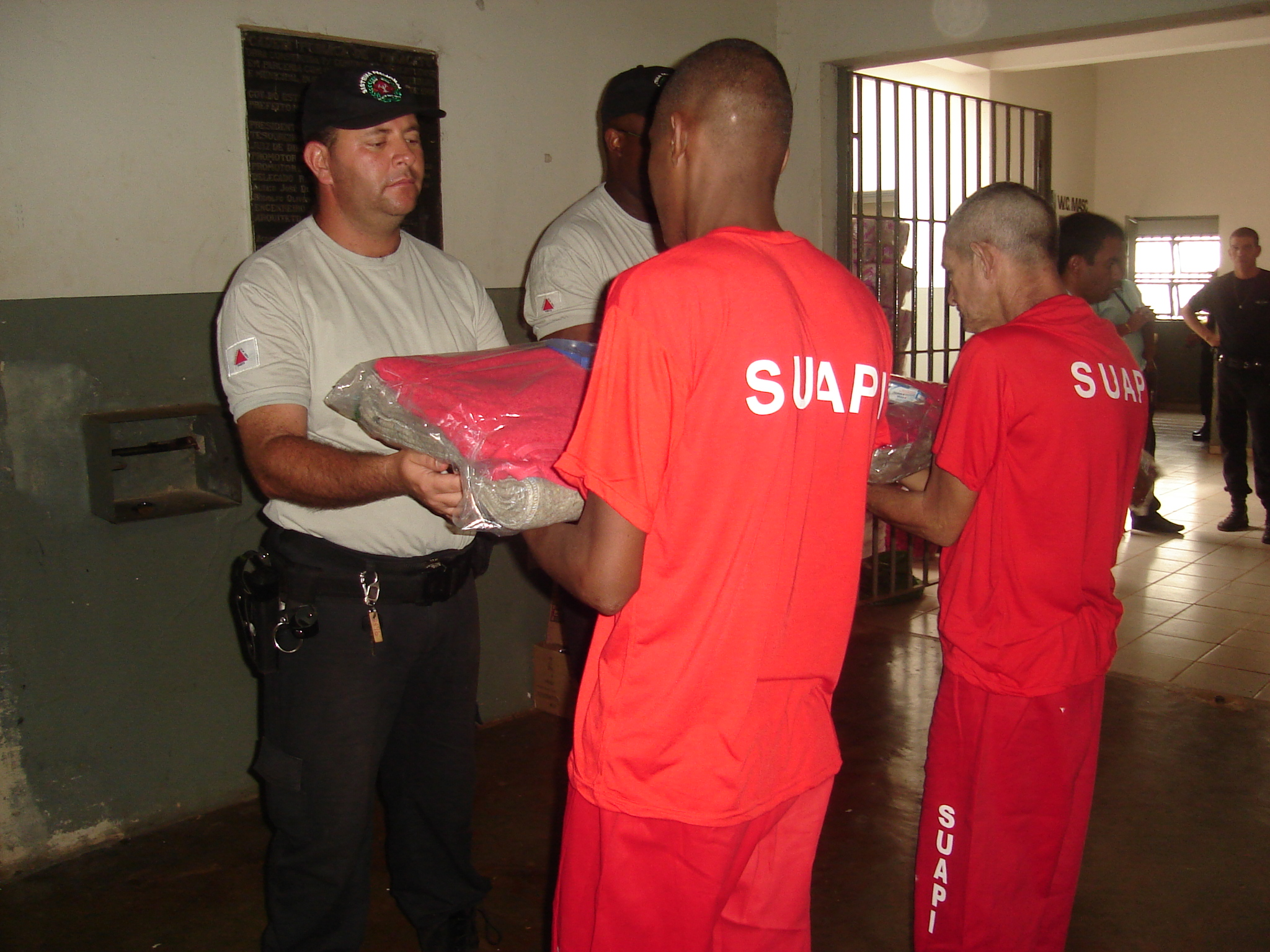 Prisoner receiving material of personal use